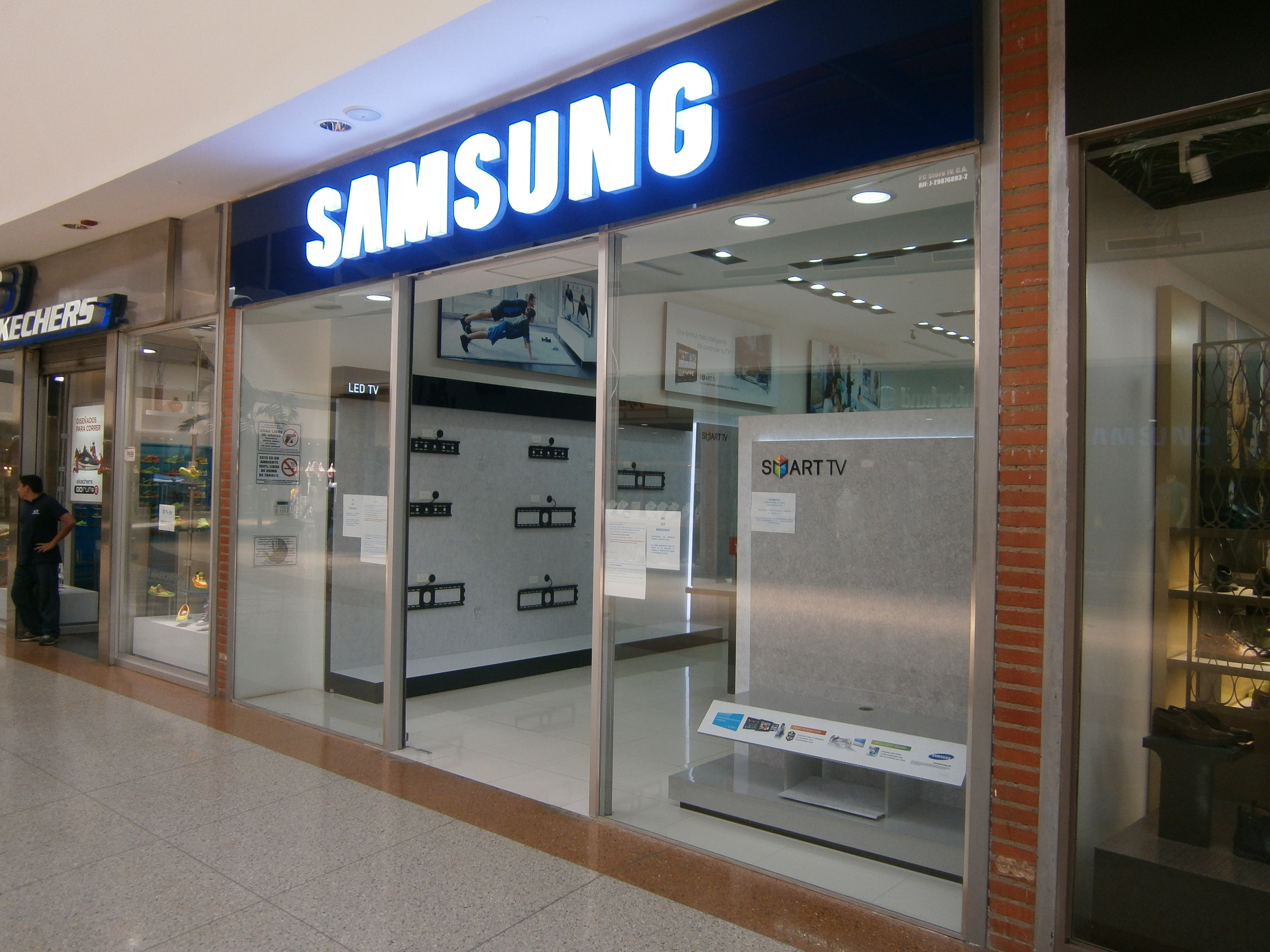 Economics problems in Venezuela